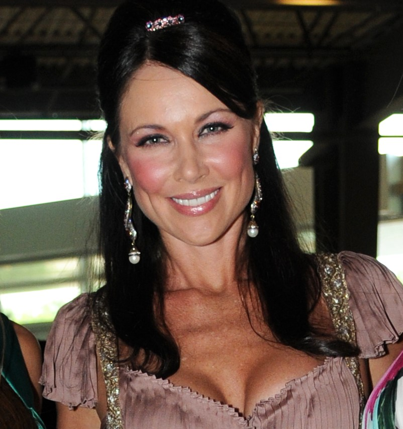 TV personality and actress LeeAnne Locken photographed in 2011